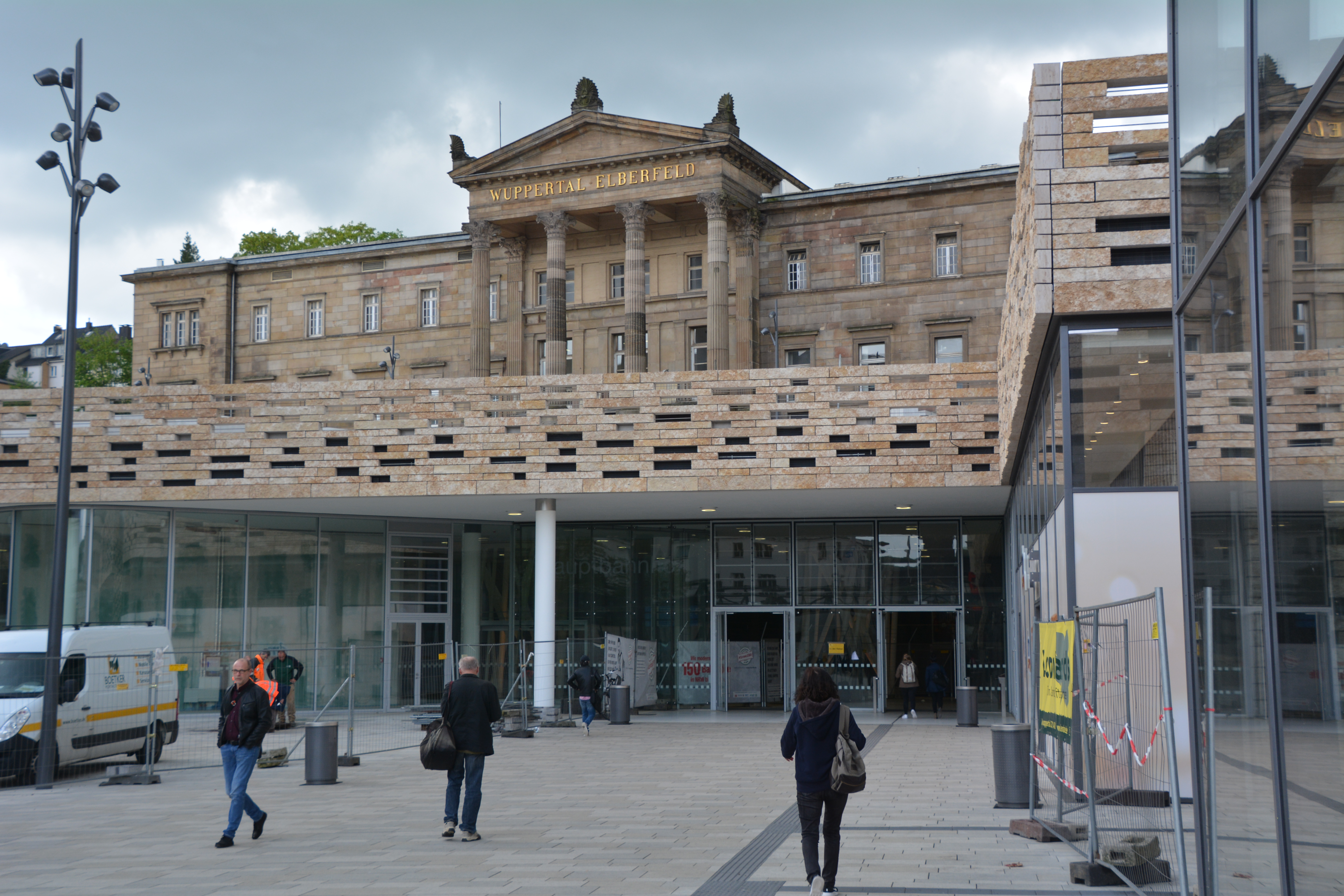 Hauptbahnhof Wuppertal